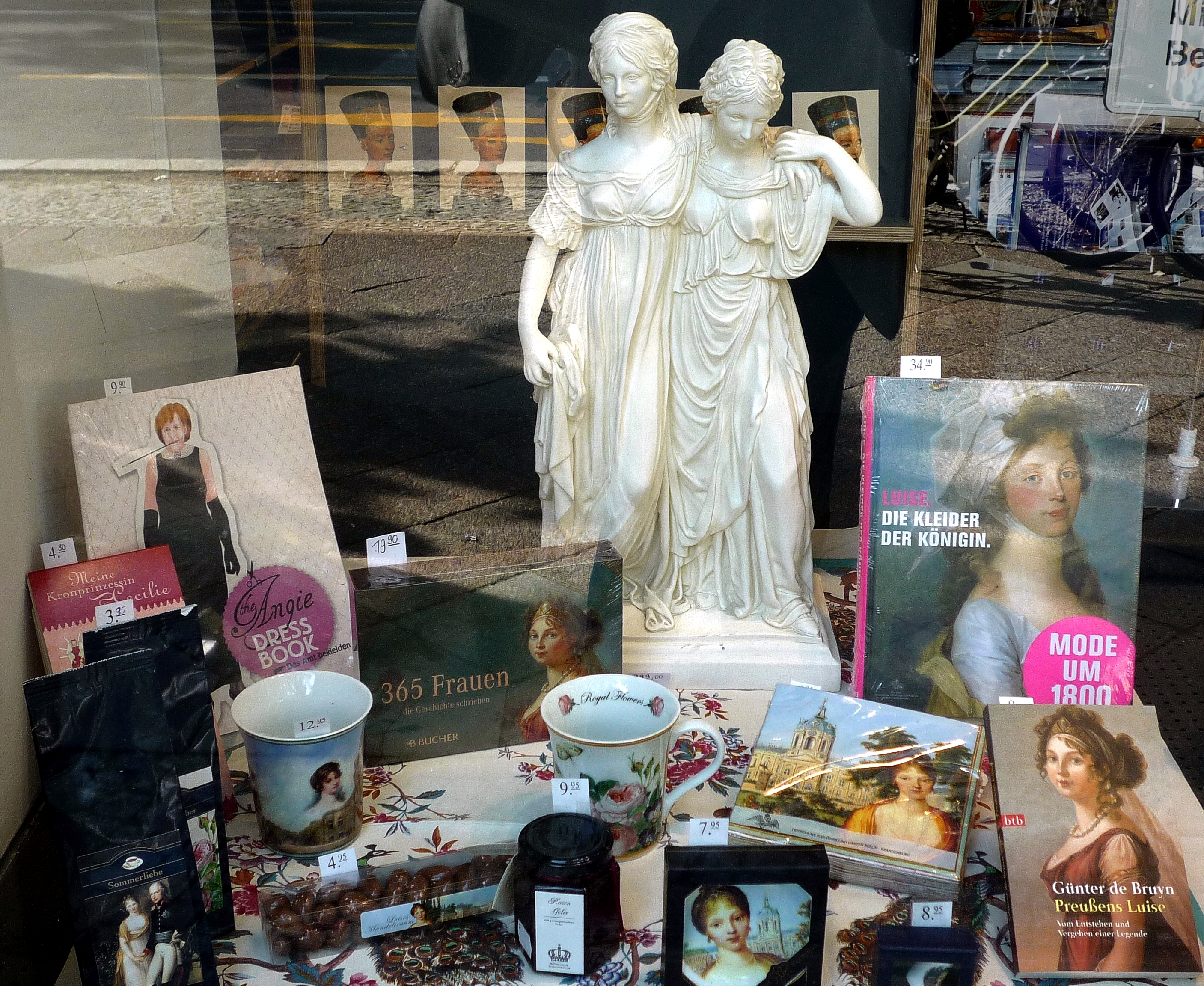 The "Prinzessinnengruppe" (Princess Luise von Mecklenburg-Strelitz and her sister Friederike) by Johann Gottfried Schadow. Replica in the shop-window of a book-store in Berlin.